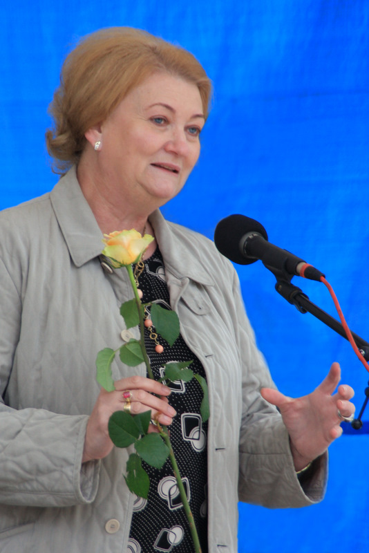 Anna Záborská